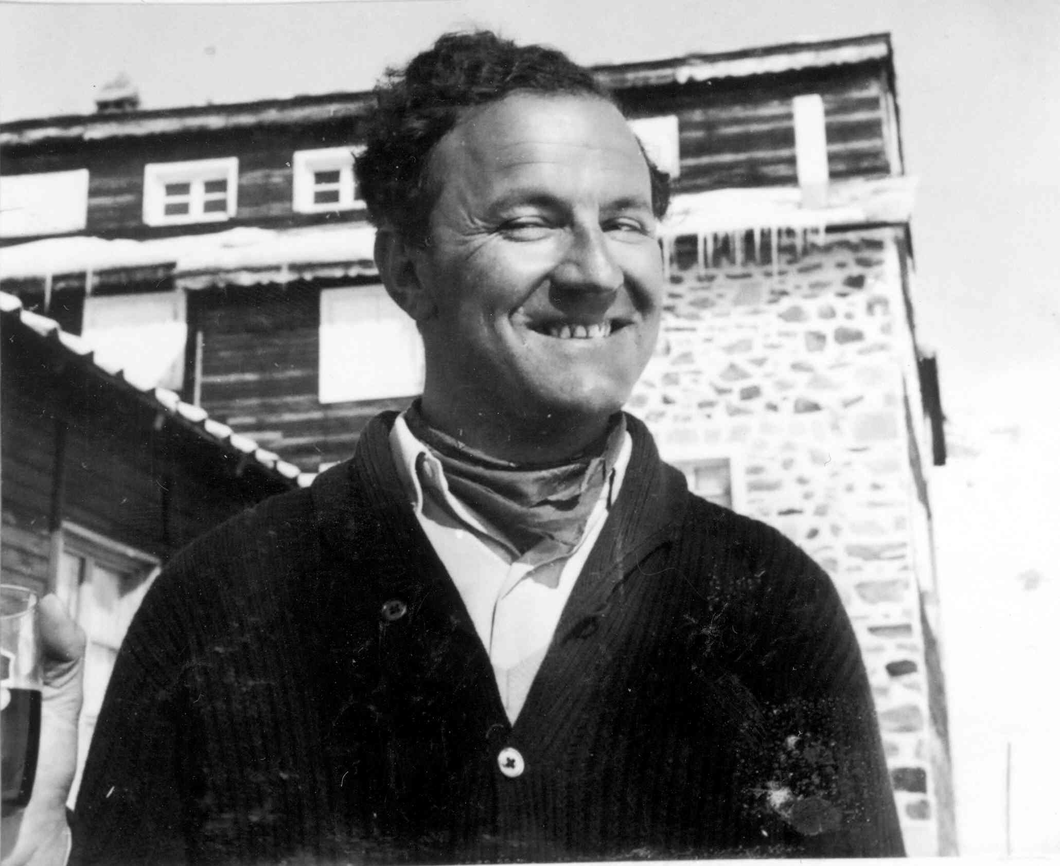 2nd Earl Jellicoe (1918-2007).